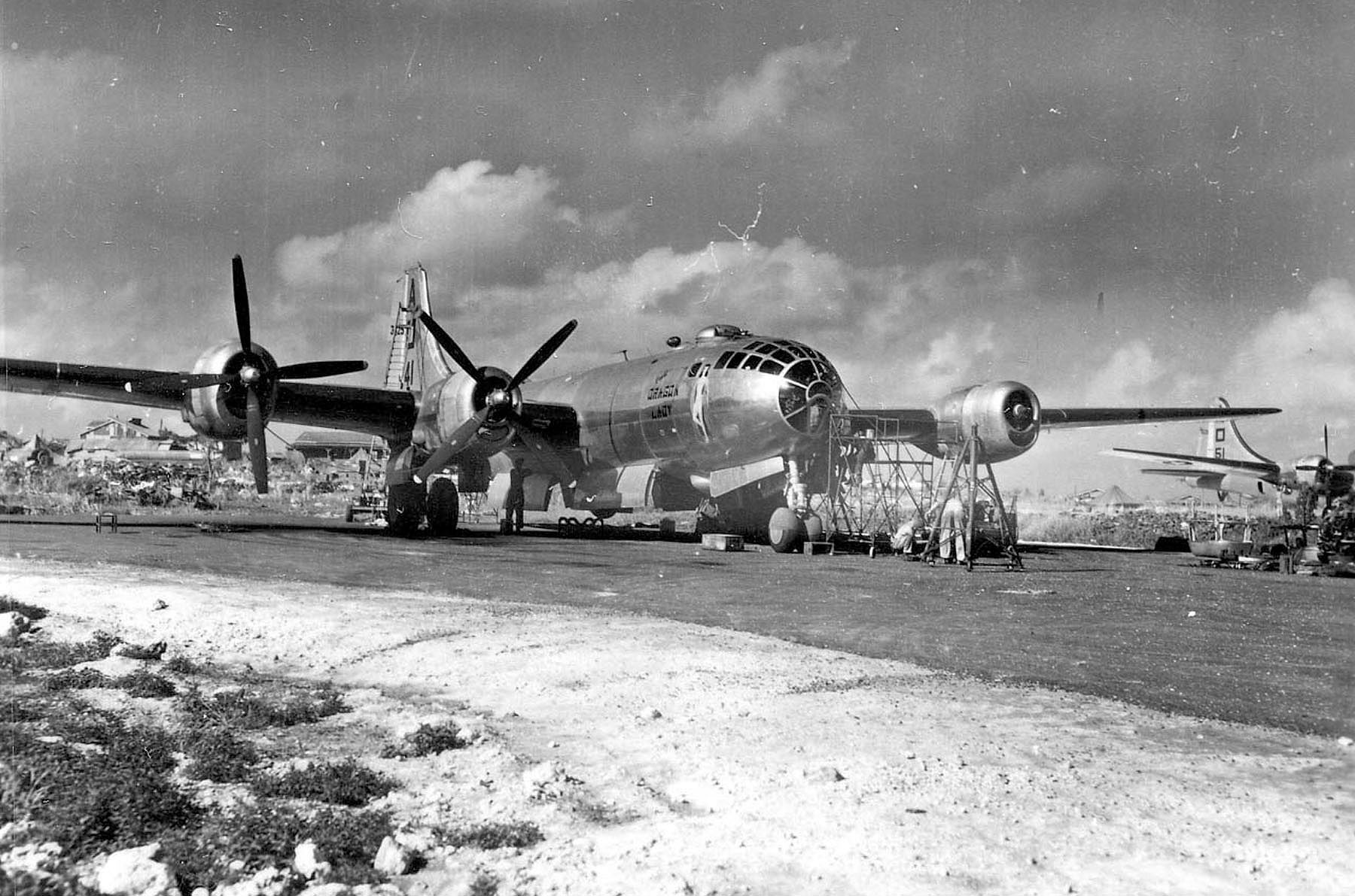 Boeing B-29 "The Dragon Lady" (43-63425) from the 497th Bomb Group undergoes maintenance at Isley Airfield, Saipan, Northern Mariana Islands. Note that the No. 1 and No. 2 propellers have been removed. (U.S. Air Force photo)